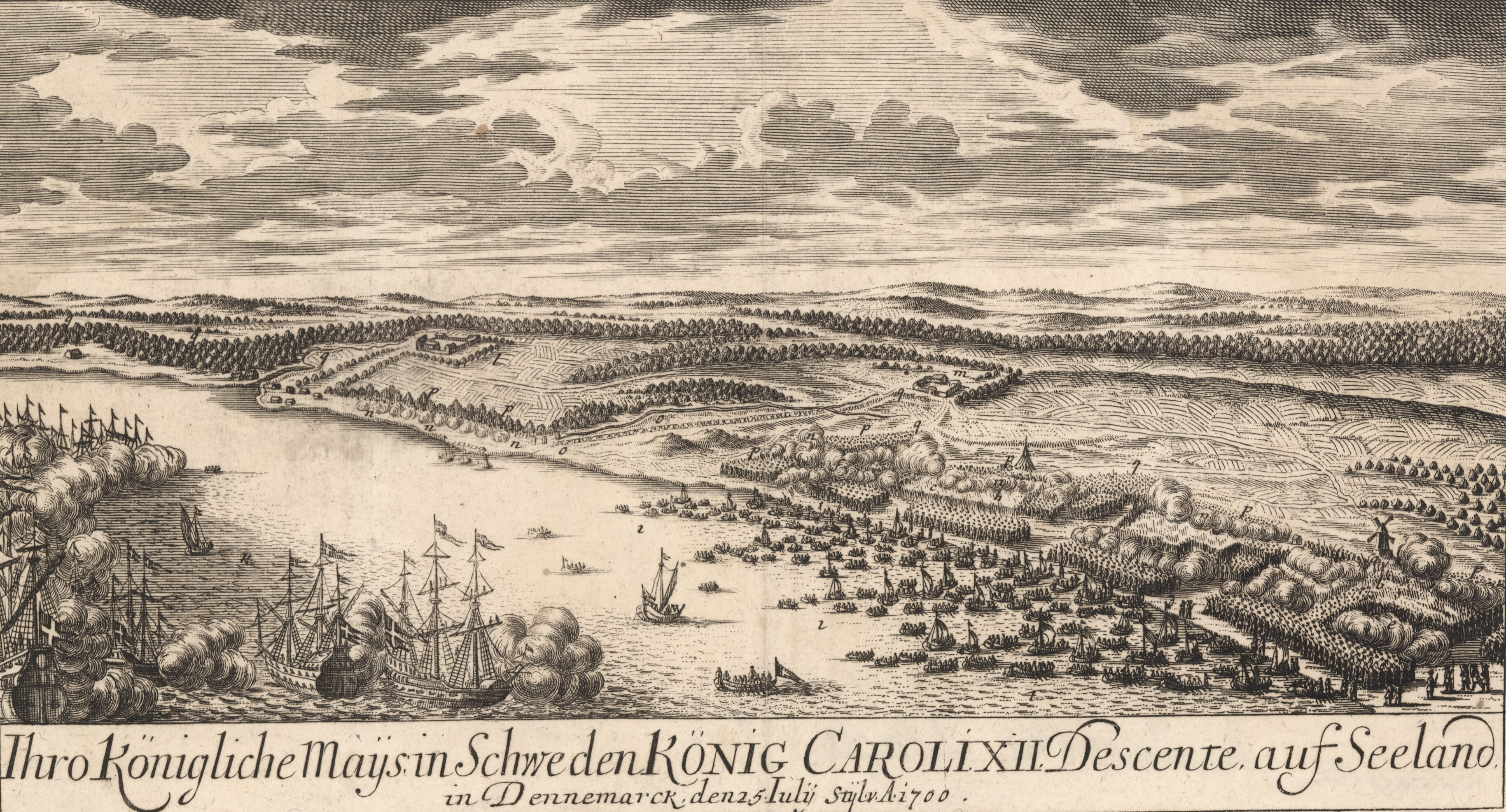 The landing on Humlebæk by Swedish troops during the Great Northern War against Denmark.